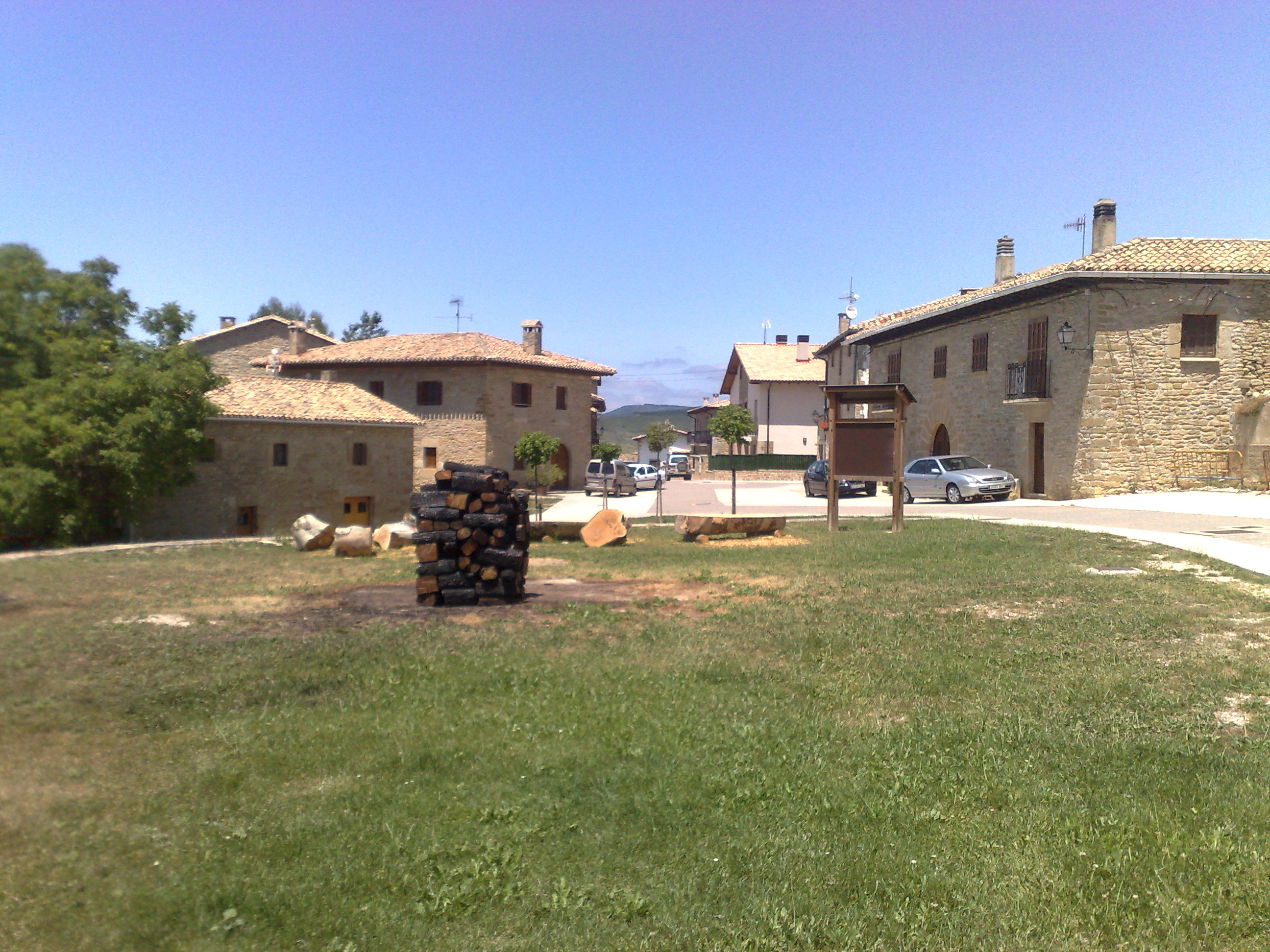 Threshing floor (eu larrain), Labio (es Labiano), Aranguren, Navarre, Basque Country.